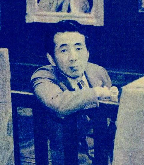 Ryohei Koiso